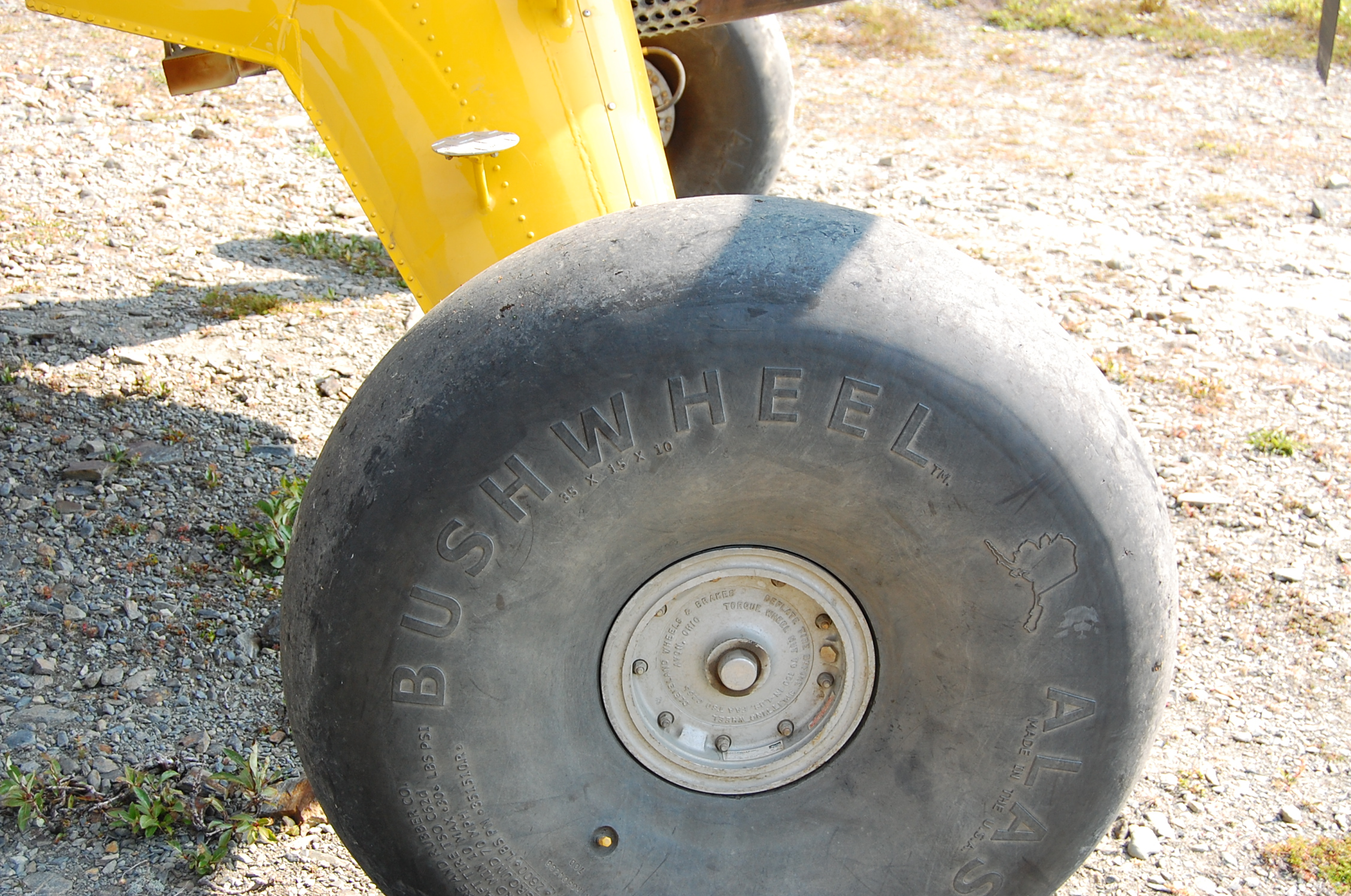 Bushwheel on a De Havilland Beaver.